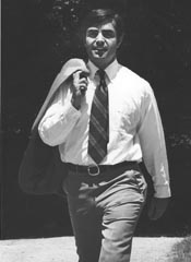 former congressman Bruce Faulkner Caputo of New York